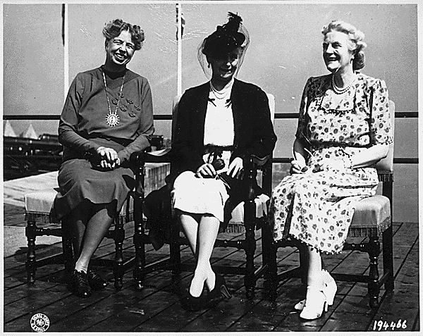 "Eleanor Roosevelt, Princess Alice, and Mrs. Winston Churchill at Quebec, Canada for conference"